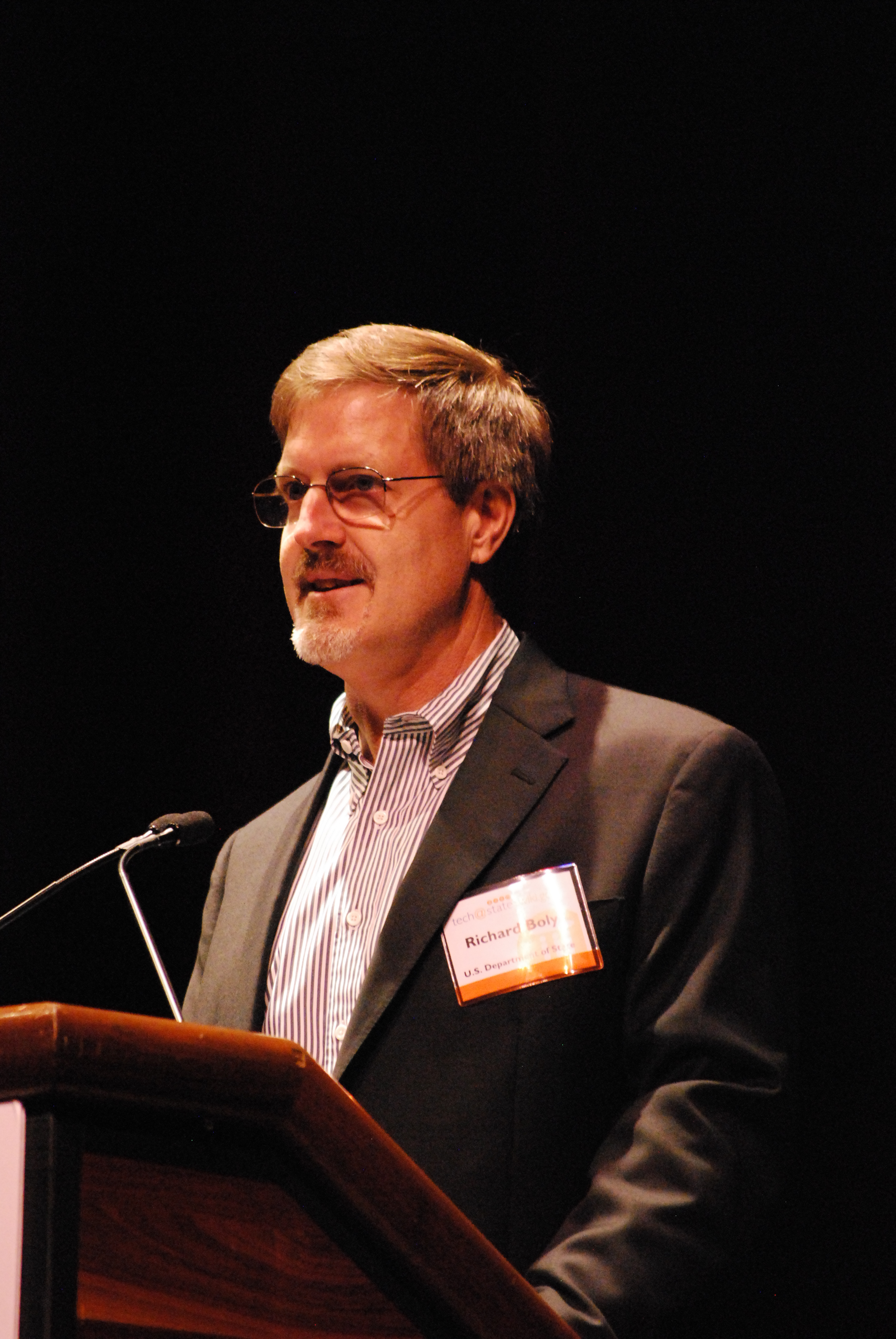 Richard Boly speaking at the Wikimania 2012 opening ceremony